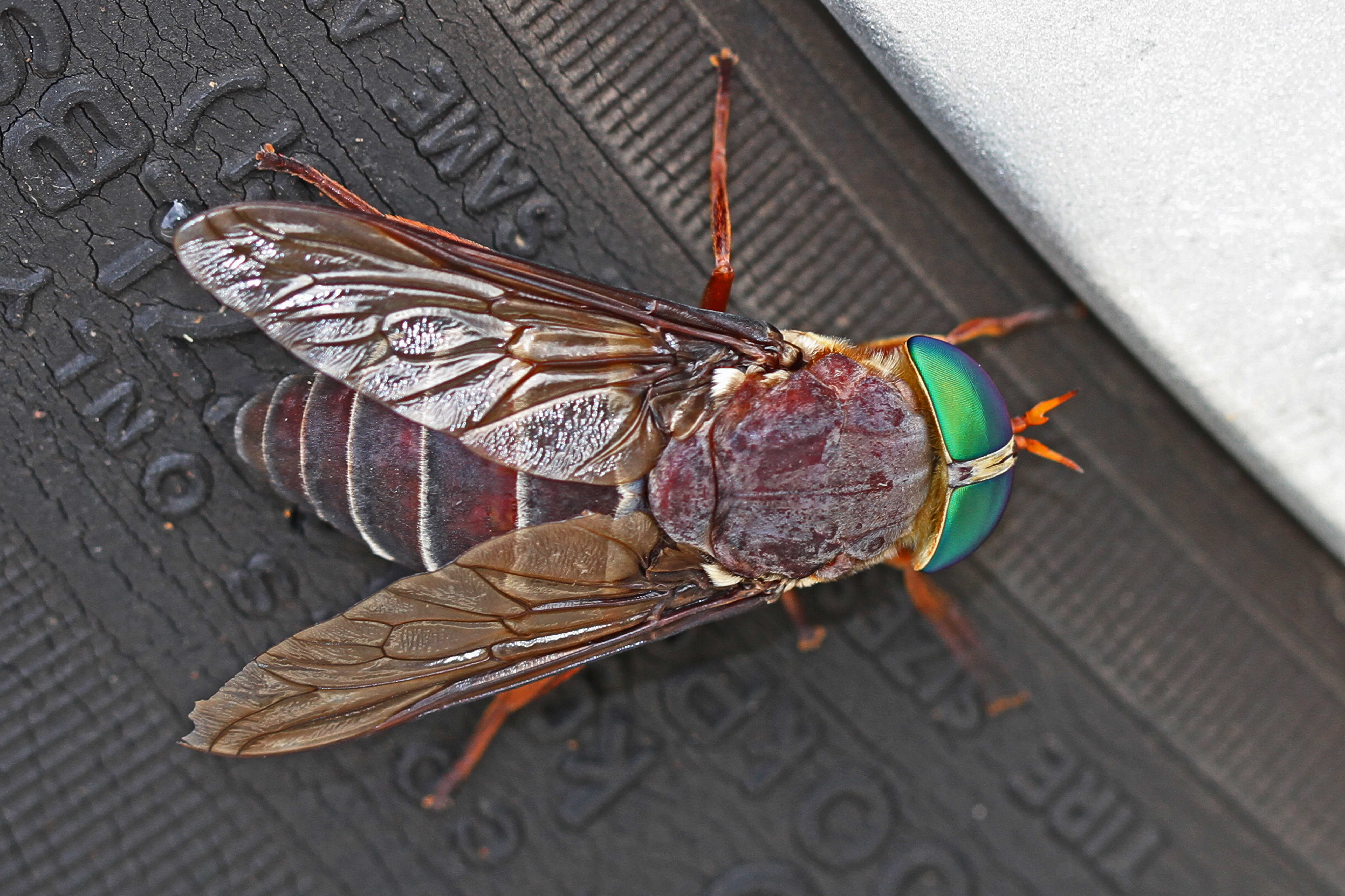 Horsefly - Tabanus americanus, Okeefenokee National Wildlife Refuge, Folkston, Georgia. This horsefly was huge, and I hurriedly got back in my car after I had taken its picture.